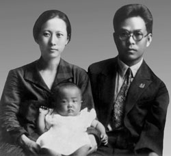 Park Hon-yeong and Jusejuk and theres daugther viviana, in Moscow, 1929